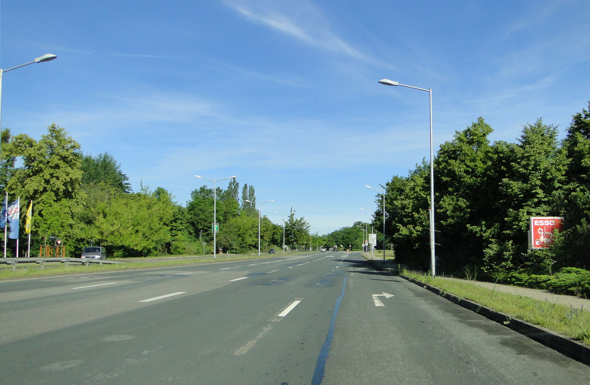 Ludwigsluster Chaussee in Schwerin, Mecklenburg-Vorpommern, Germany